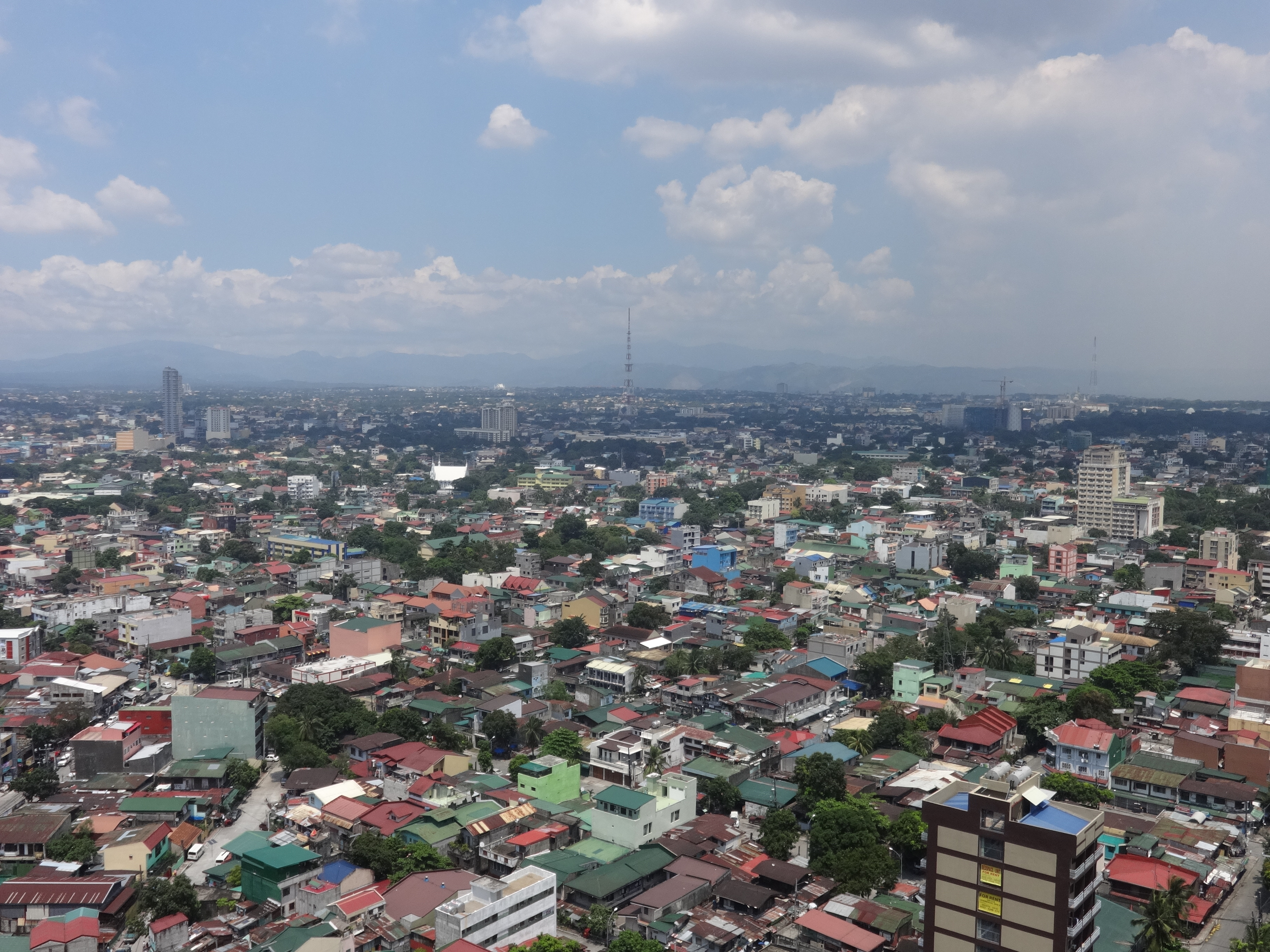 Bago Bantay and Tandang Sora area in Quezon City